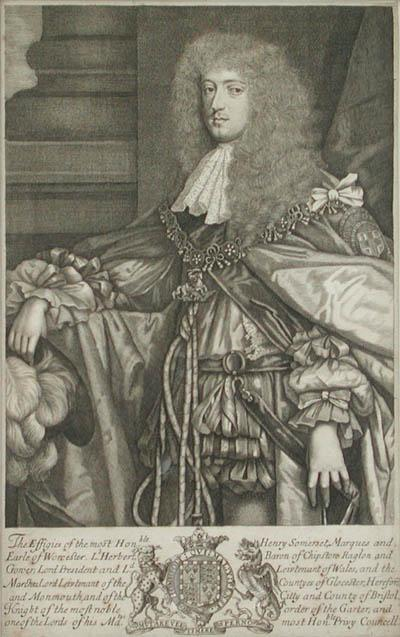 Portrait of Henry Somerset, 1st Duke of Beaufort